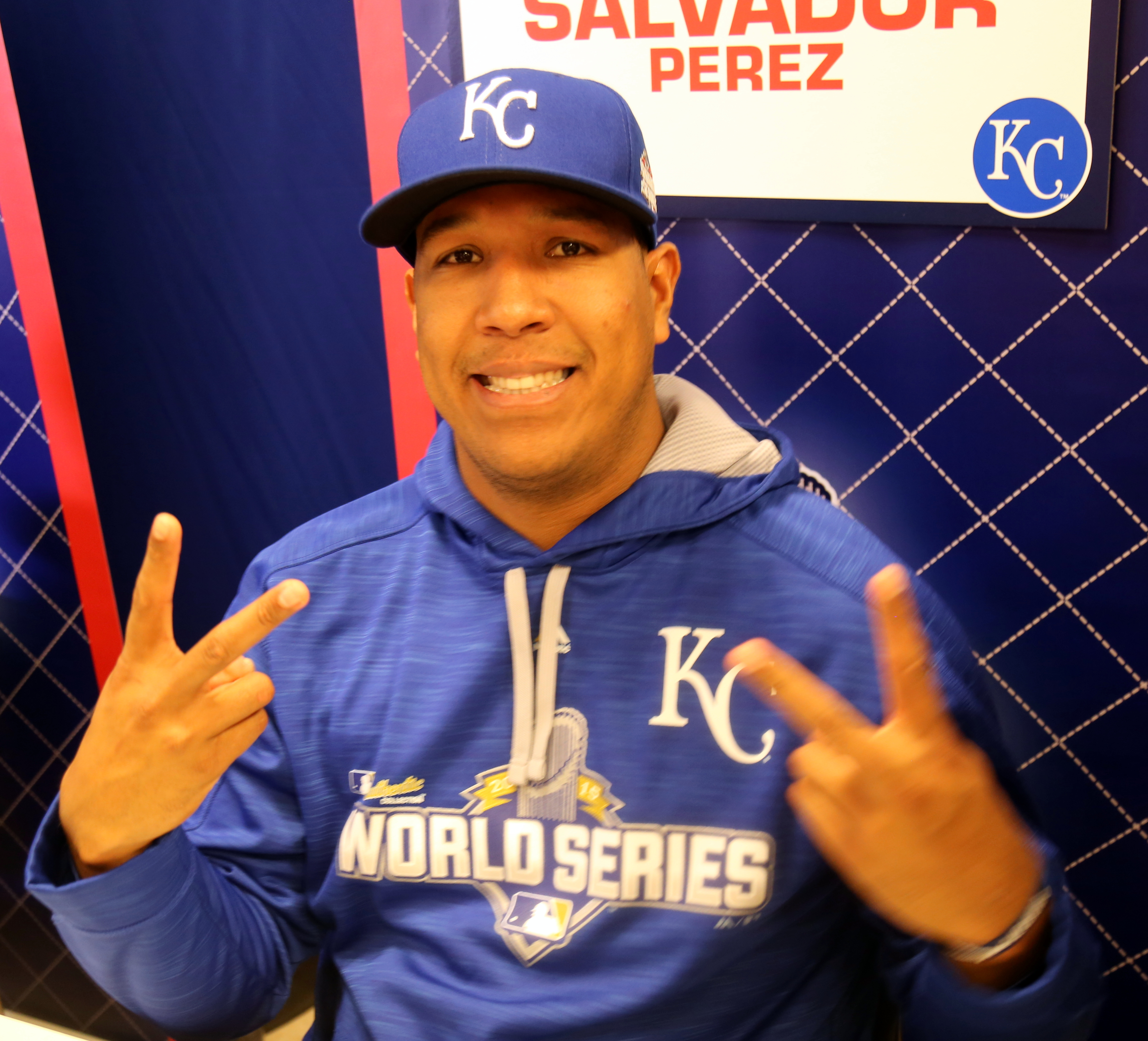 Salvador Perez says what's up.